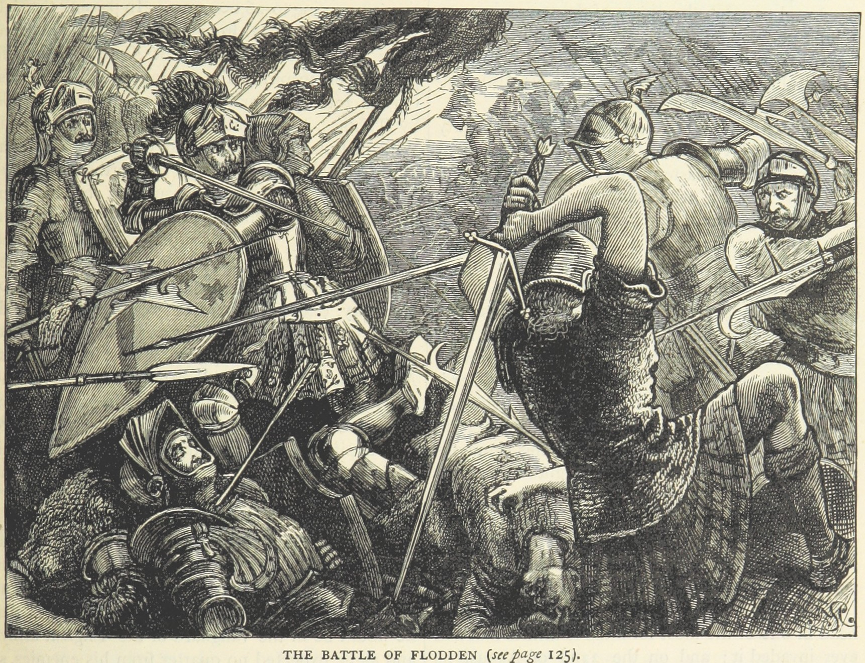 Pitched combat between the English and Scottish forces at the Battle of Flodden.